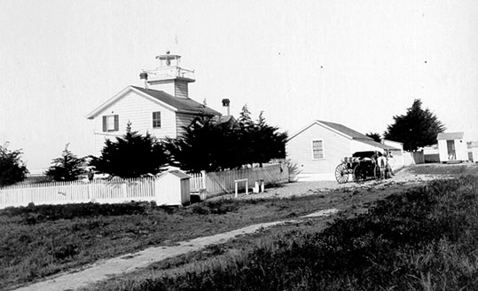 Public Domain statement here; Santa Cruz Breakwater Lighthouse, also known as Walton Lighthouse, is a lighthouse in California, United States, on the Santa Cruz Harbor.